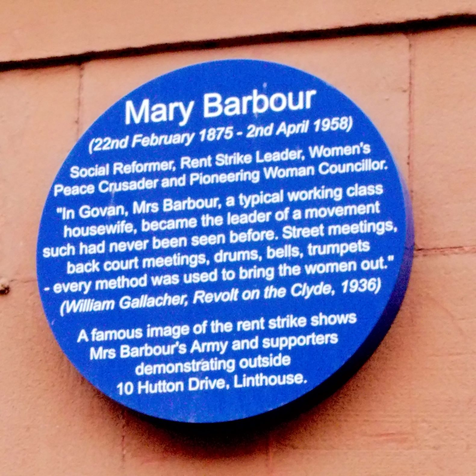 Blue plaque commemorating Mary Barbour and the 1915 Glasgow Rent Strikes, located at 10 Hutton Drive, Linthouse in Govan, Glasgow, where a rent strike action was pictured in progress.